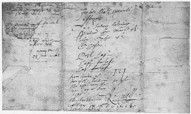 The address leaf of an Elizabethan gallows letter, sent by the Privy Council from London to Chester for sending to the Council of Ireland. Dated 21st of August, 1598 and arrived three days later.